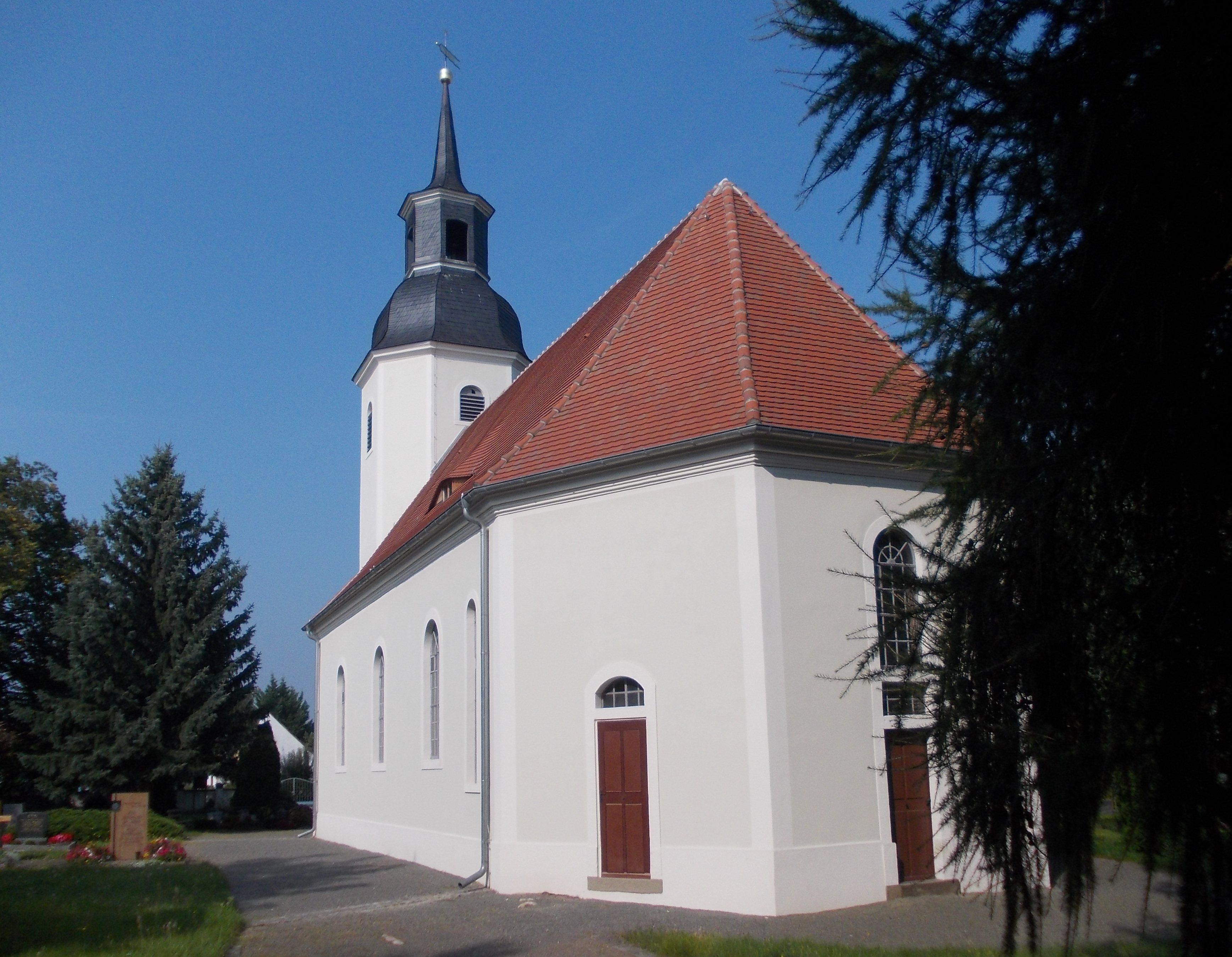 Wildenhain church (Mockrehna, Nordsachsen district, Saxony)